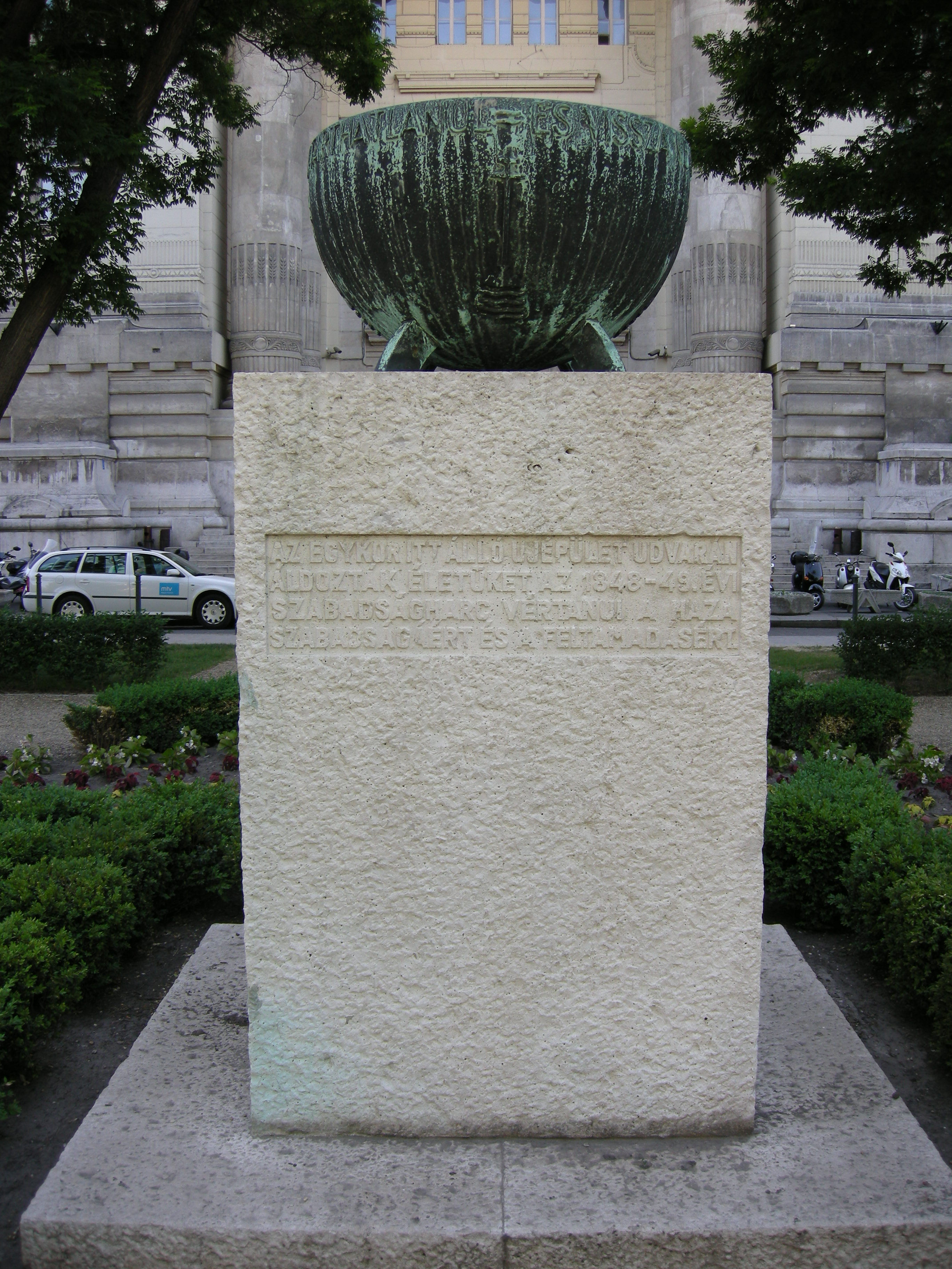 ~Monument to the martyrs of a new building. A memorial of the 1848-49 Revolution. - Szabadság Square, Lipótváros neighbourhood, District V, Budapest.